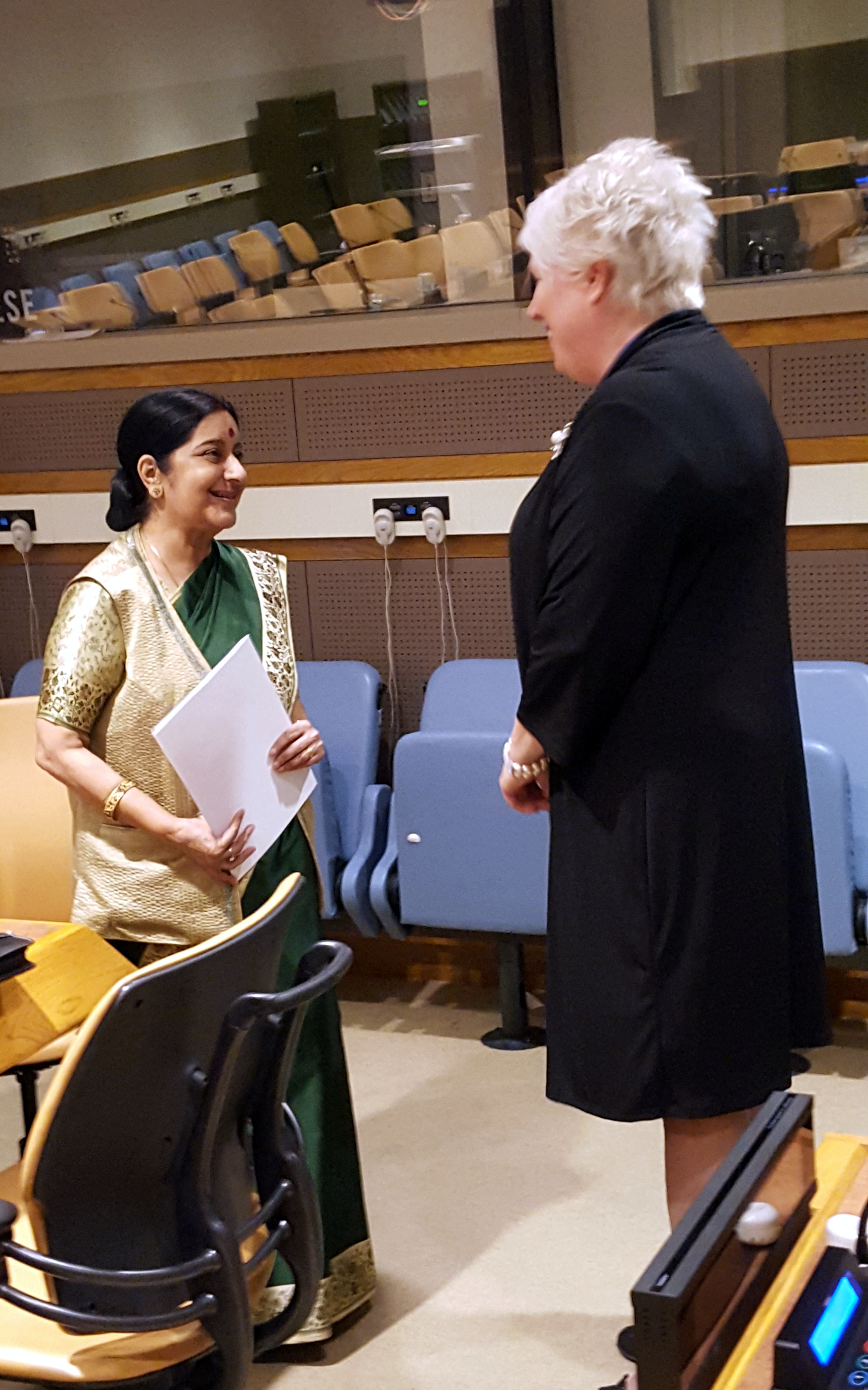 Estonian Foreign Minister Marina Kaljurand meeting with Indian Foreign Minister Sushma Swaraj at the 70th UN General Assembly.